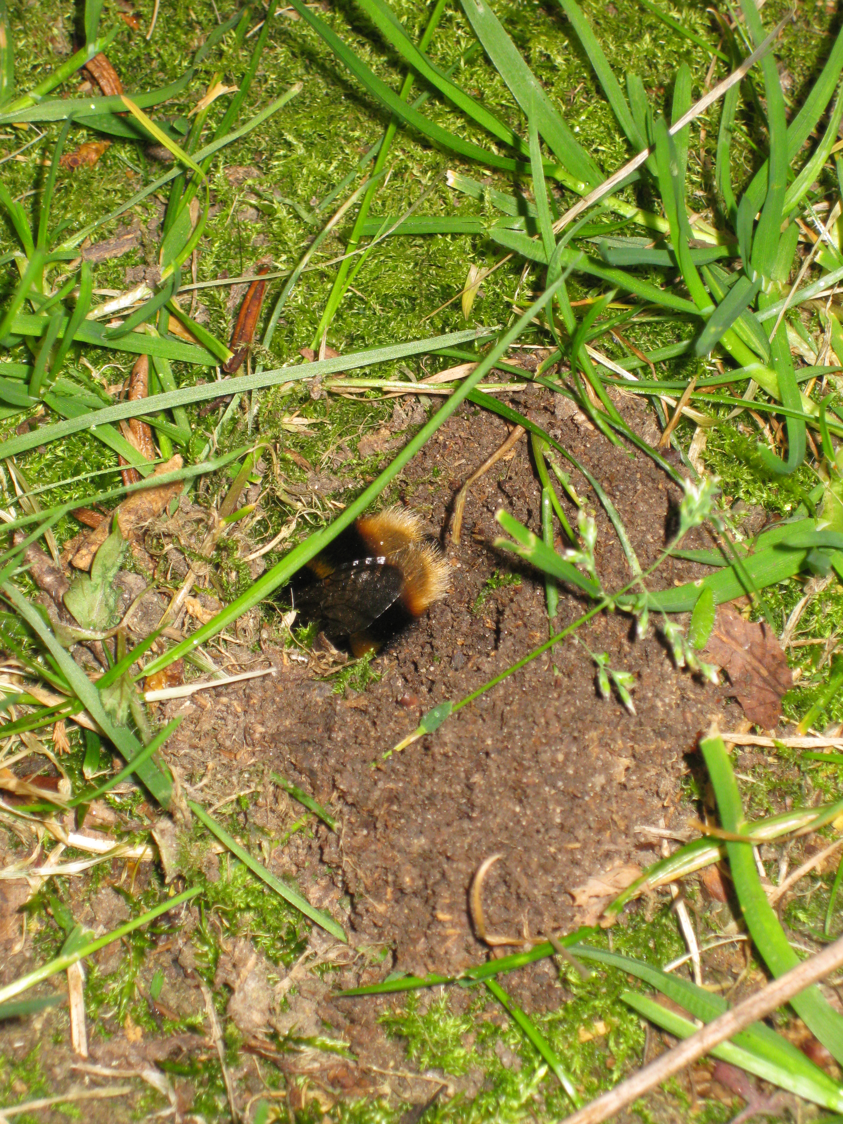 A Bumble Bee enlarging her nest hole